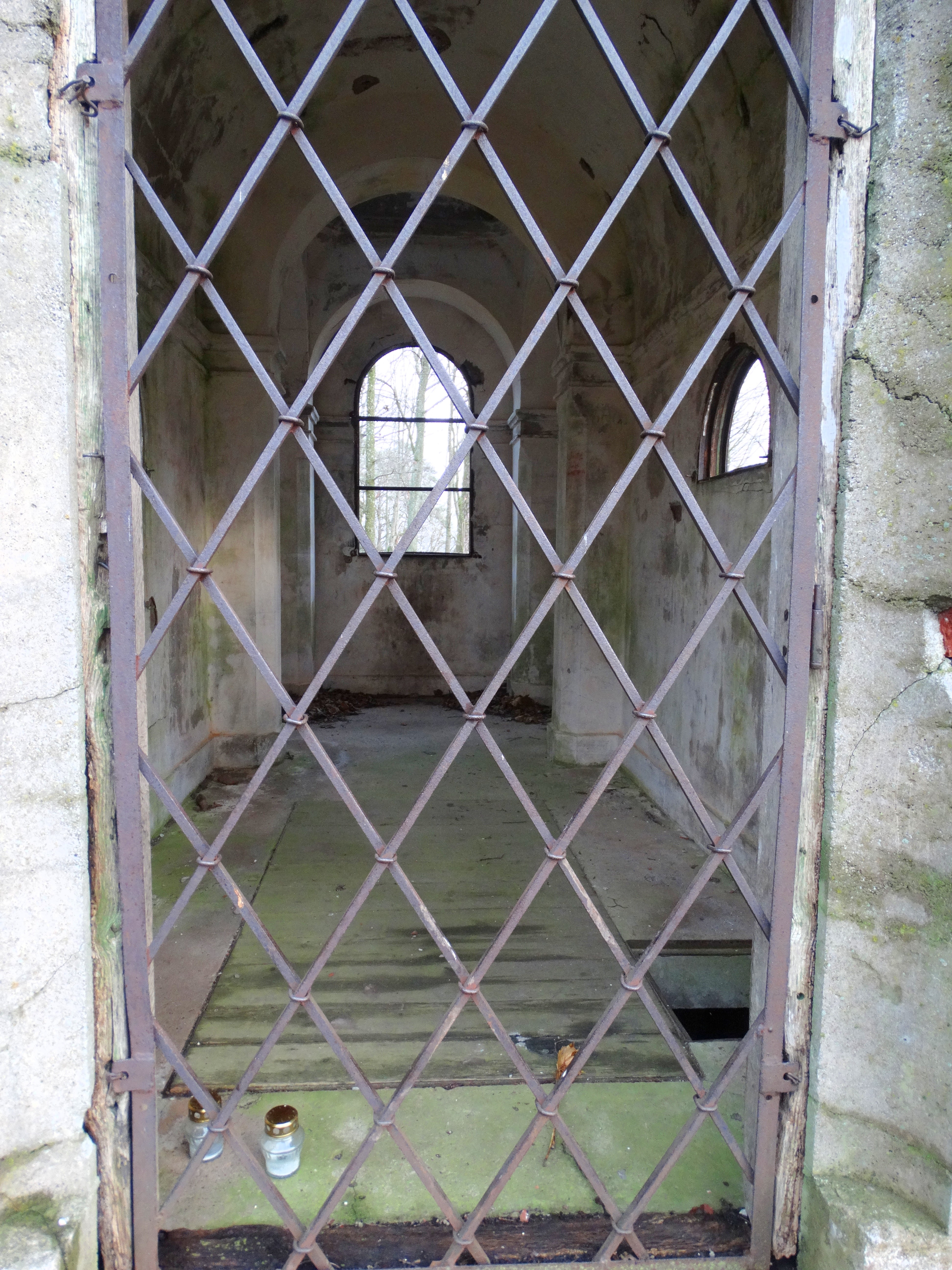 Burial chapel in Vytėnai (Pilis I), Jurbarkas district, Lithuania